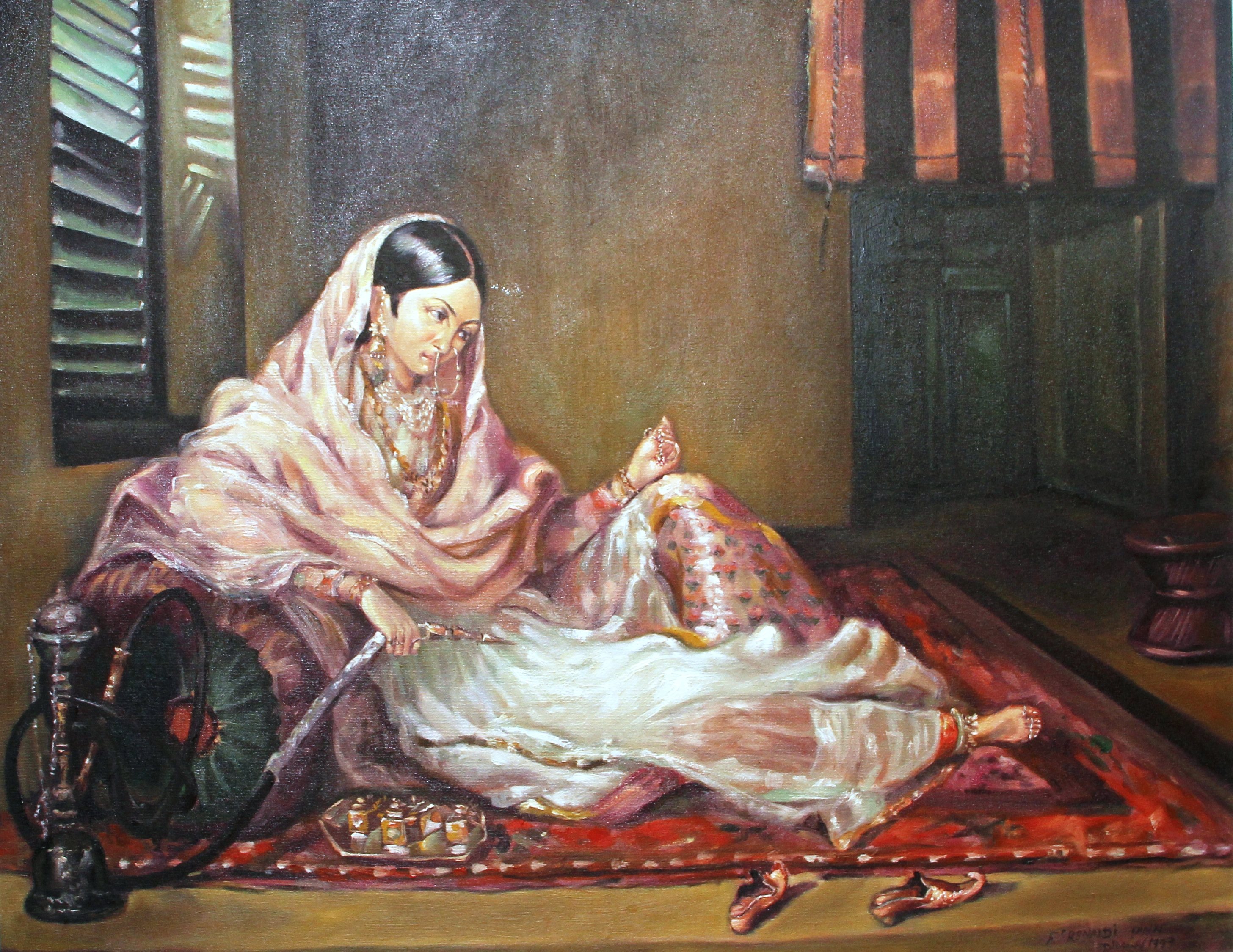 Photograph of a famous painting titled 'Lady in Muslin', painted by Francesco Renaldi, Dacca, 1789